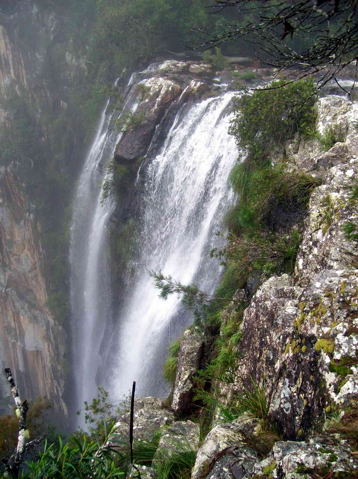 Minyon Falls, north eastern New South Wales, Australia